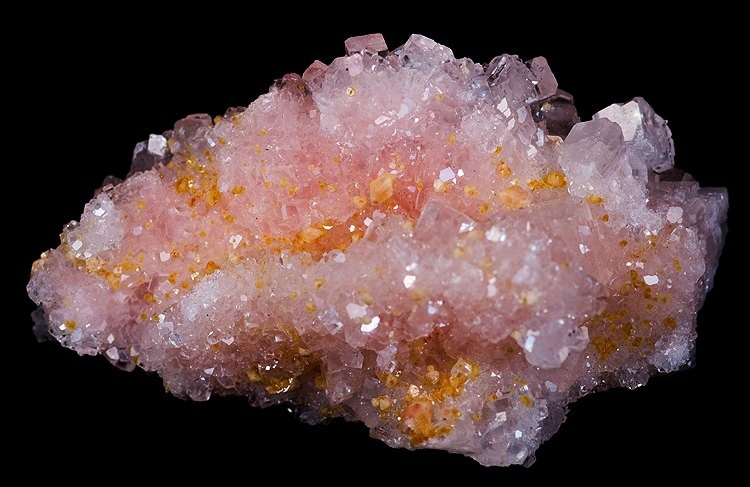 Florencite-(Ce), Magnesite Locality: Serra das Éguas, Brumado (Bom Jesus dos Meiras), Bahia, Northeast Region, Brazil (Locality at ) Size: 7.4 x 4.4 x 4.0 cm. Florencite-(Ce) is a rare rare-earth, cerium-rich phosphate. This incredibly rich and fine specimen is peppered with sharp, euhedral, straw-yellow florencite-(Ce) crystals to 5 mm on a very 3-dimensional, layered and vuggy matrix of two generations of very glassy and lustrous, colorless magnesite rhombs. The largest magnesite rhomb is 2.3 cm across and portions of the magnesite matrix have a very pleasing pink color to it.